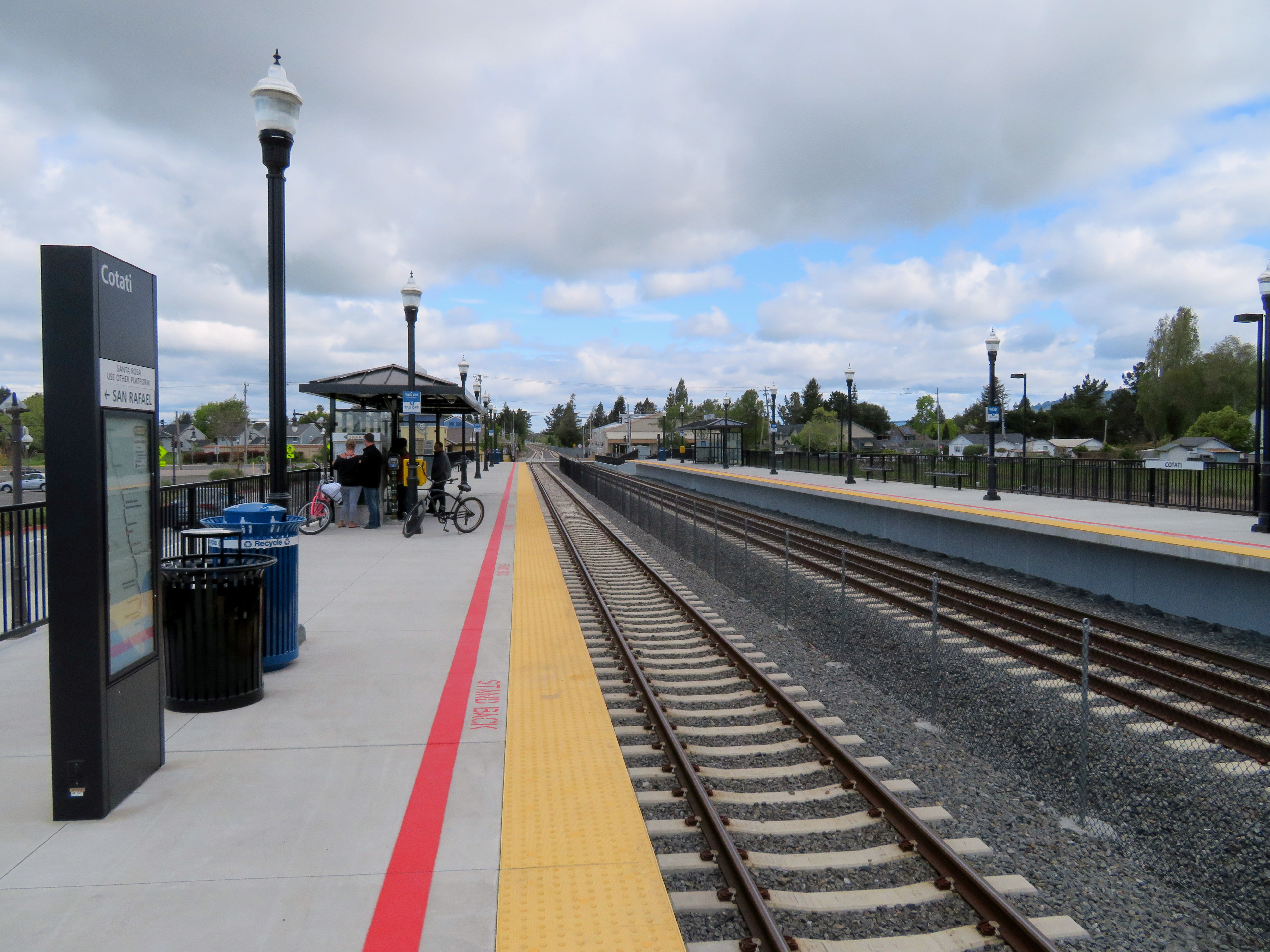 Cotati station in April 2018